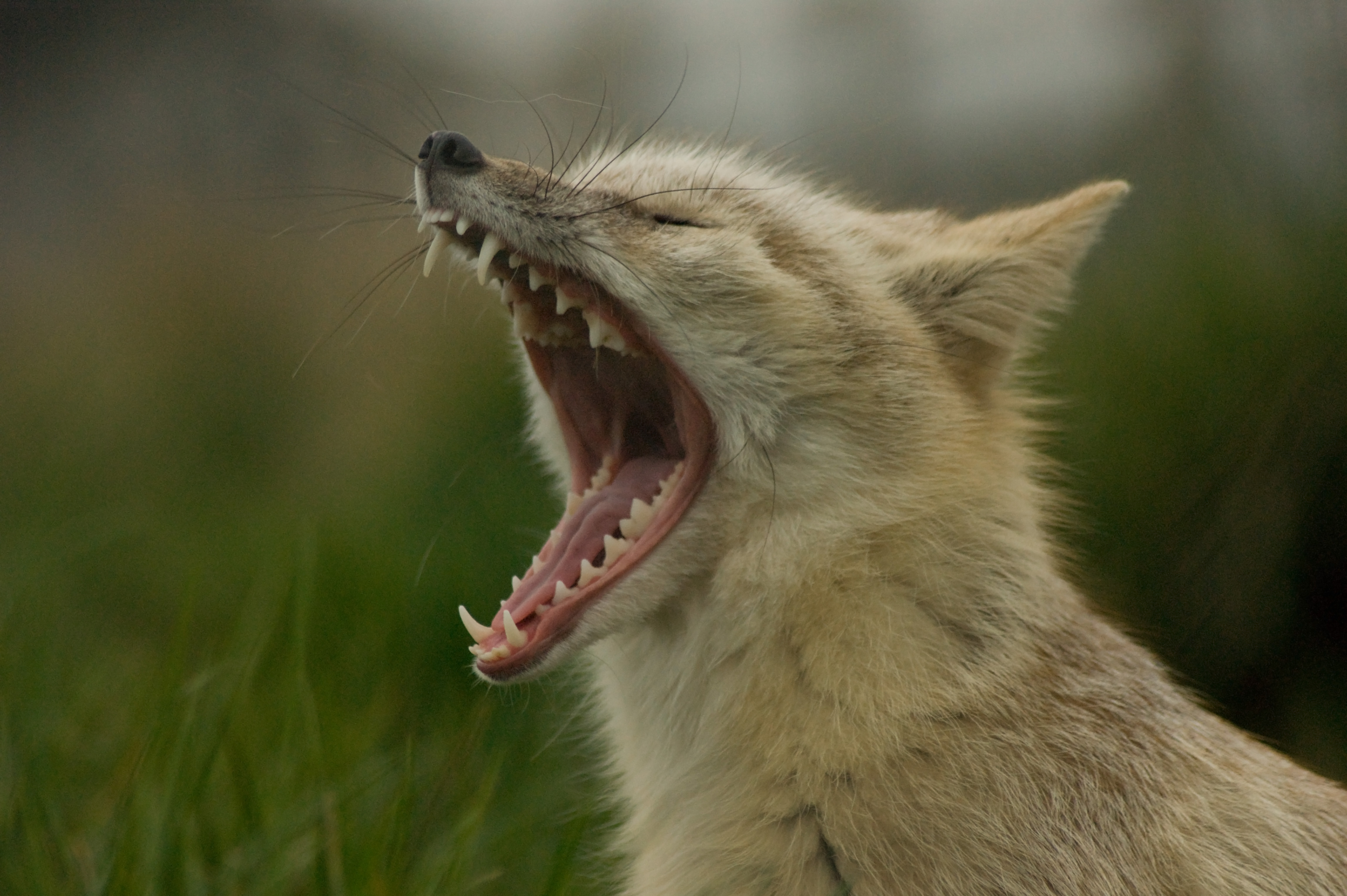 Corsac Fox (Vulpes corsac) yawning, Hamerton Zoo